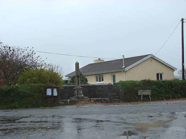 War memorial at Woodacott Cross View north northeast.